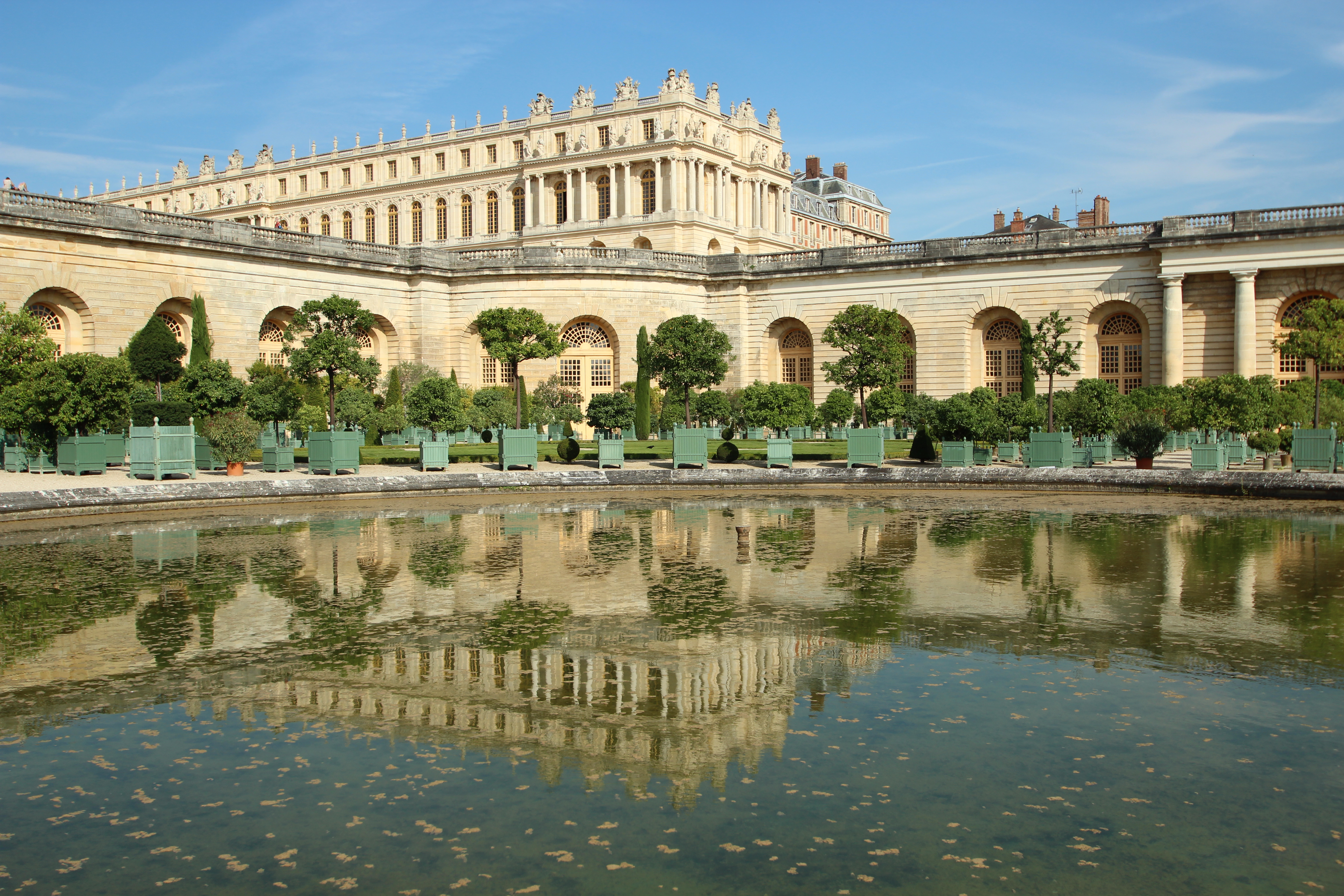 Orangery in the Palace of Versailles, France. Object location48° 48′ 08.32″ N, 2° 07′ 06.56″ E . This image was uploaded as part of L'Été des villes 2015.